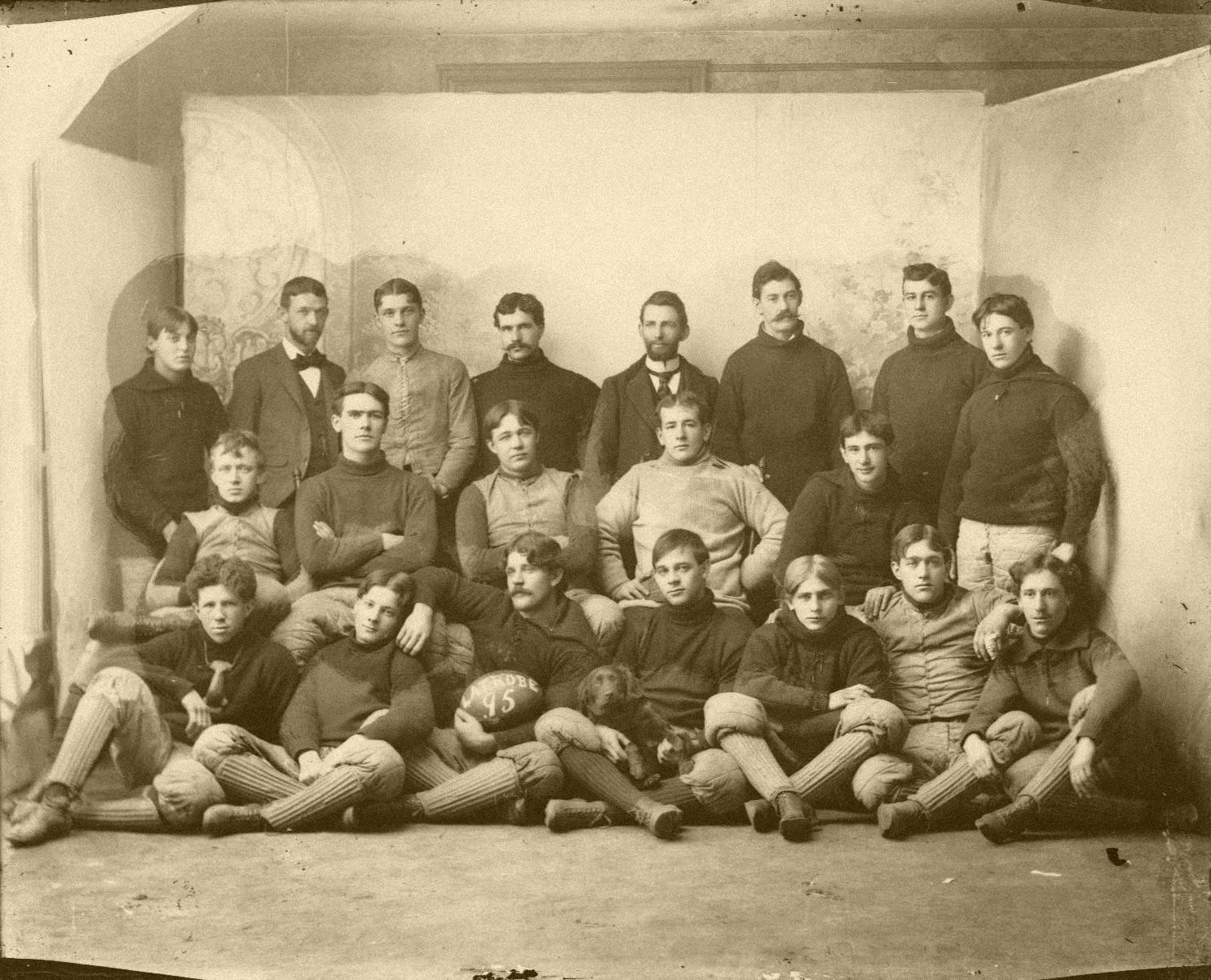 In 1895, Latrobe, Pennsylvania formed one of the earliest professional football teams. This image of the inaugural team is well known and can be found in various books about early football.